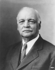 Photography of Charles Curtis